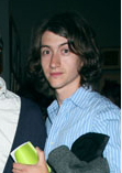 Alex Turner ,new time